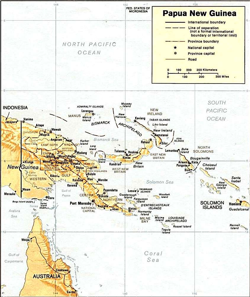 Papua New Guinea